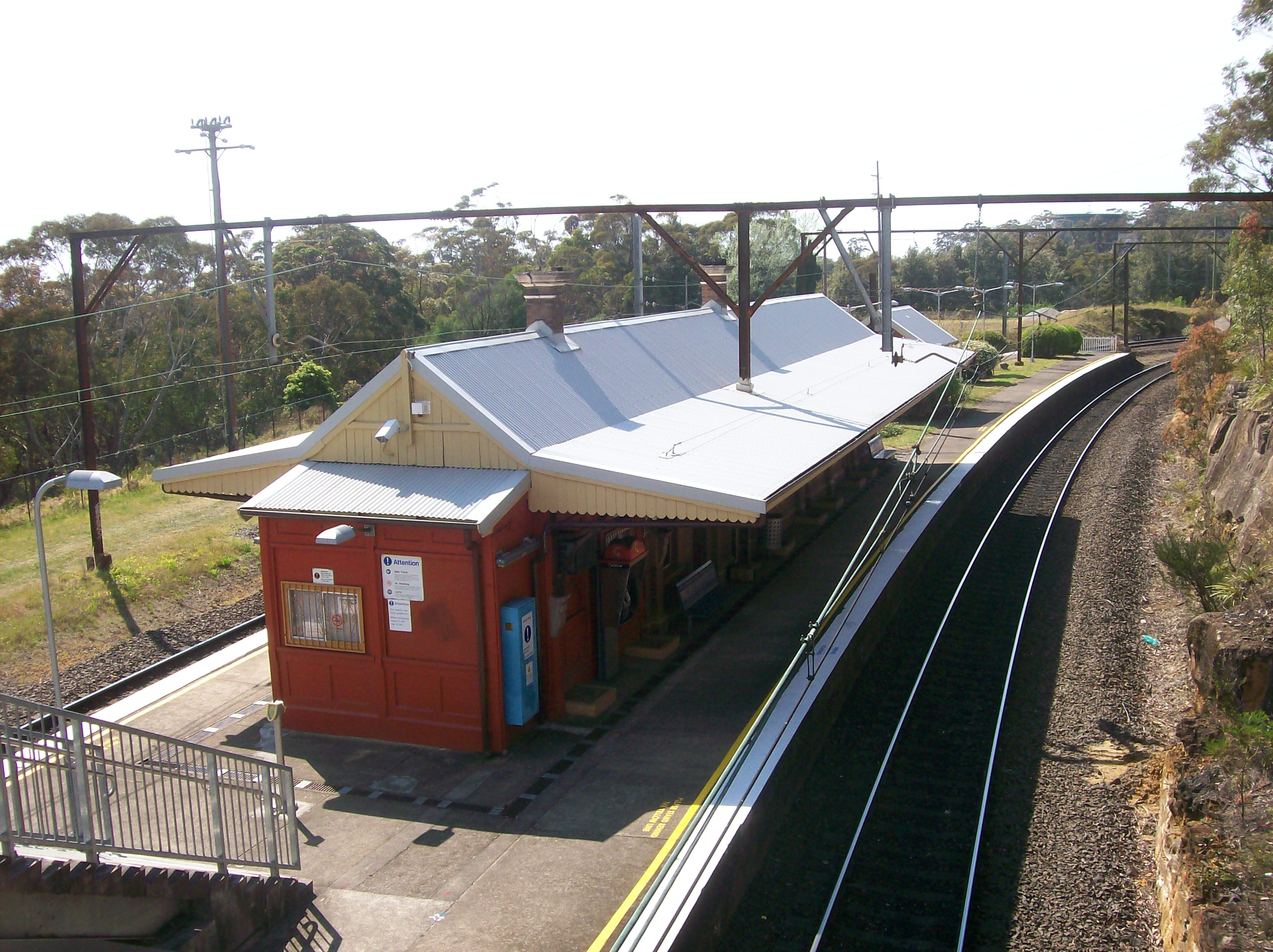 Linden railway station